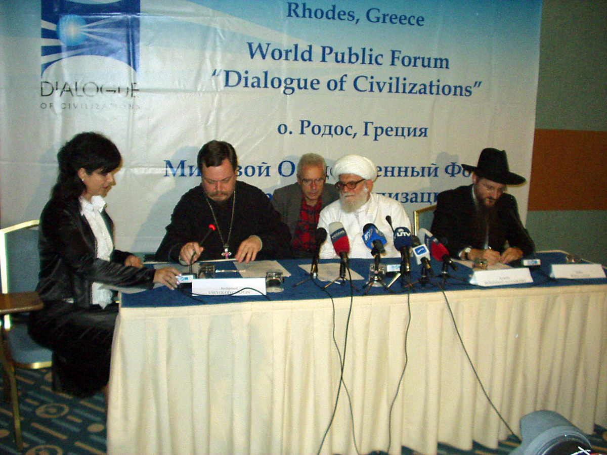 Left to right: the host, Vsevolod Chaplin, interpreter, Mohammad-Ali Taskhiri, Berel Lazar.